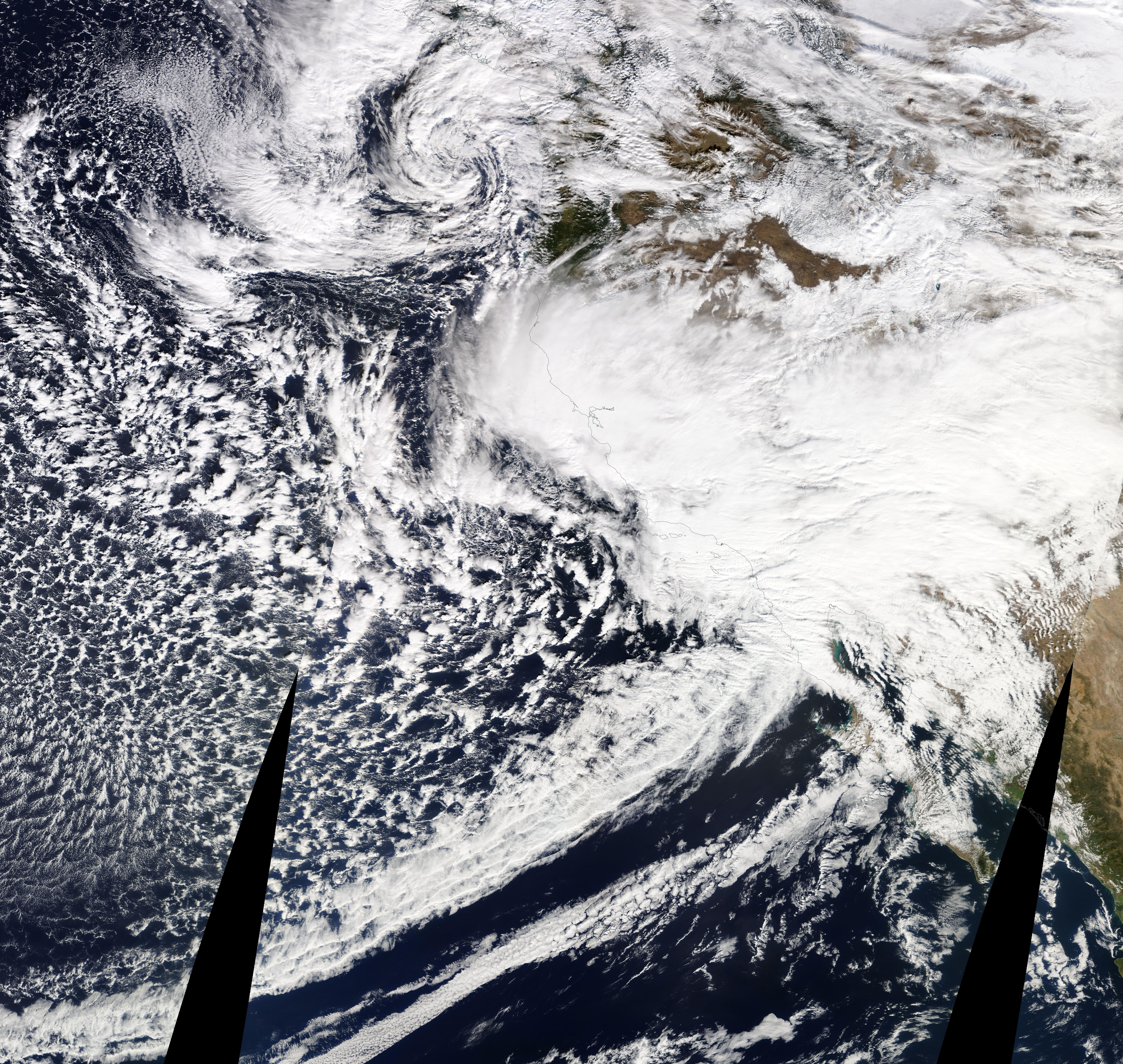 Satellite image of the sixth of the January 2010 North American winter storms (the fifth storm to affect California), at peak intensity, just prior to landfall in California on January 21. This storm was the last storm of the group to affect California, and it also broke multiple minimum pressure records across California and Oregon, and it was the most powerful winter storm to strike the Southwestern United States in 140 years.